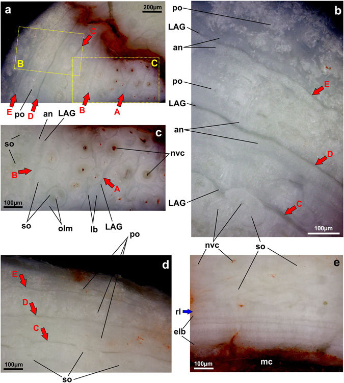 Radius microstructure of the holotype of Corythoraptor jacobsi gen. et sp. nov. (JPM-2015-001) viewed with reflected light microscopy. (a) Transversal section of the midshaft showing five growth lines (red arrows A to E) present in the middle-to-outer cortex. Note that growth line spacing decreases periosteally. (b) Close-up of the outer cortex with three growth lines (C to E). Note avascular layers (annuli) deposited prior to and after darker undulating line (line of arrested development, LAG). Primary bone is mostly preserved external to the growth line D. Secondary osteons partly obliterate the growth line C. (c) Close-up of the middle cortex with two growth lines (A and B). Growth line A consists of an ill-defined LAG followed by laminar bone (annulus). Growth line B comprises a darker line (LAG) and lighter avascular layer (annulus). Note several generations of overlapping secondary osteons are present. (d) The last growth cycles delimited by growth lines C through E. (e) Interior margin of the cortical bone with a thick deposition of endosteal laminar bone. The blue arrow points to the resorptive margin. Abbreviations: an, annulus; elb, endosteal laminar bone; LAG, line of arrested growth; lb, laminar bone; mc, medullary cavity; nvc, neurovascular canal; osla, osteonal laminae; po, primary canal; rl, resorption line; so, secondary osteon.